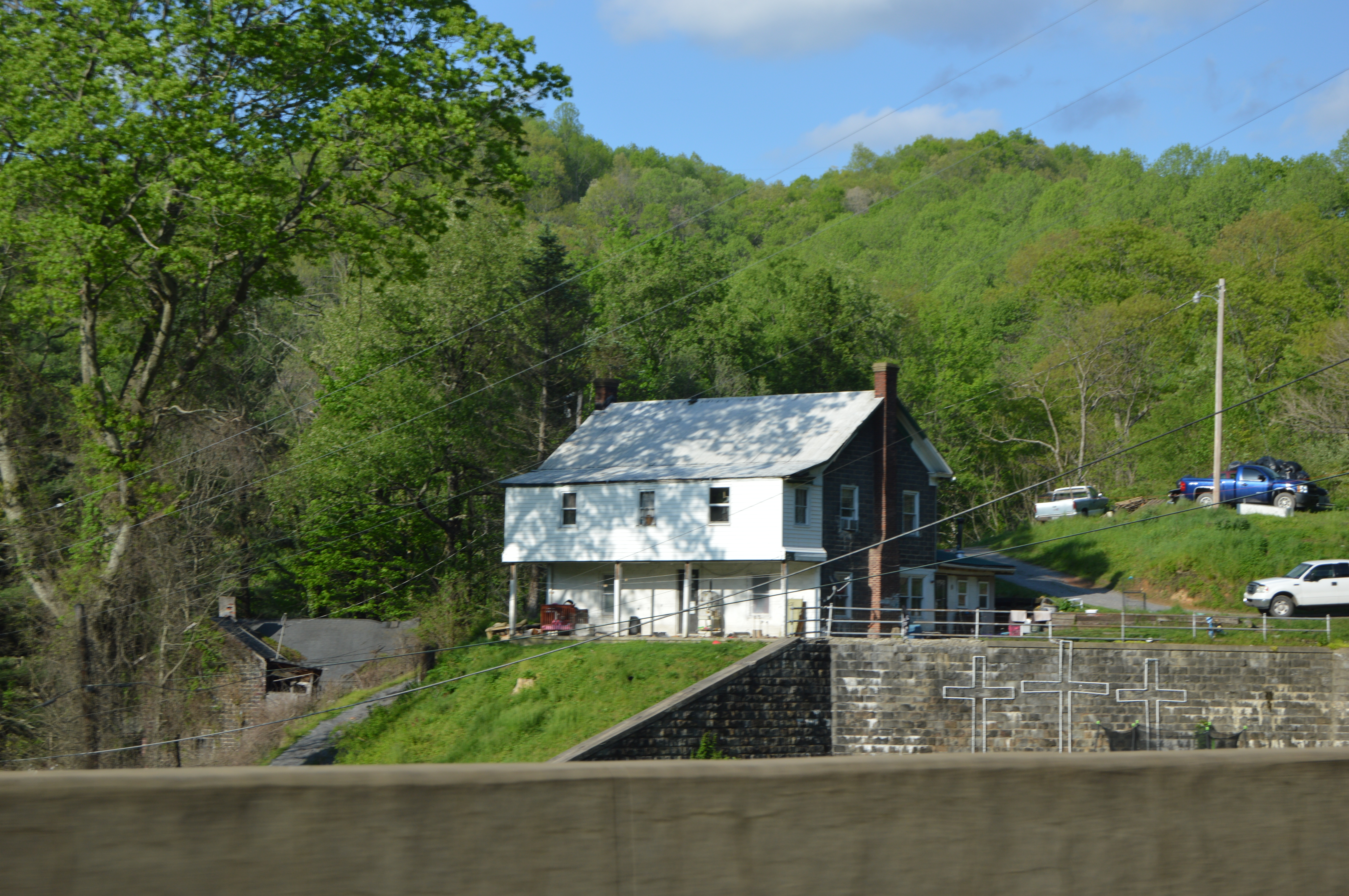 Overview of the site of the Pocahontas Fuel Company Store at Switchback, a small mining community along U.S. Route 52 in McDowell County, West Virginia, United States. If it were still standing, it would obscure the camera's view of the crosses on the masonry wall. Before its destruction, the store was listed on the National Register of Historic Places.